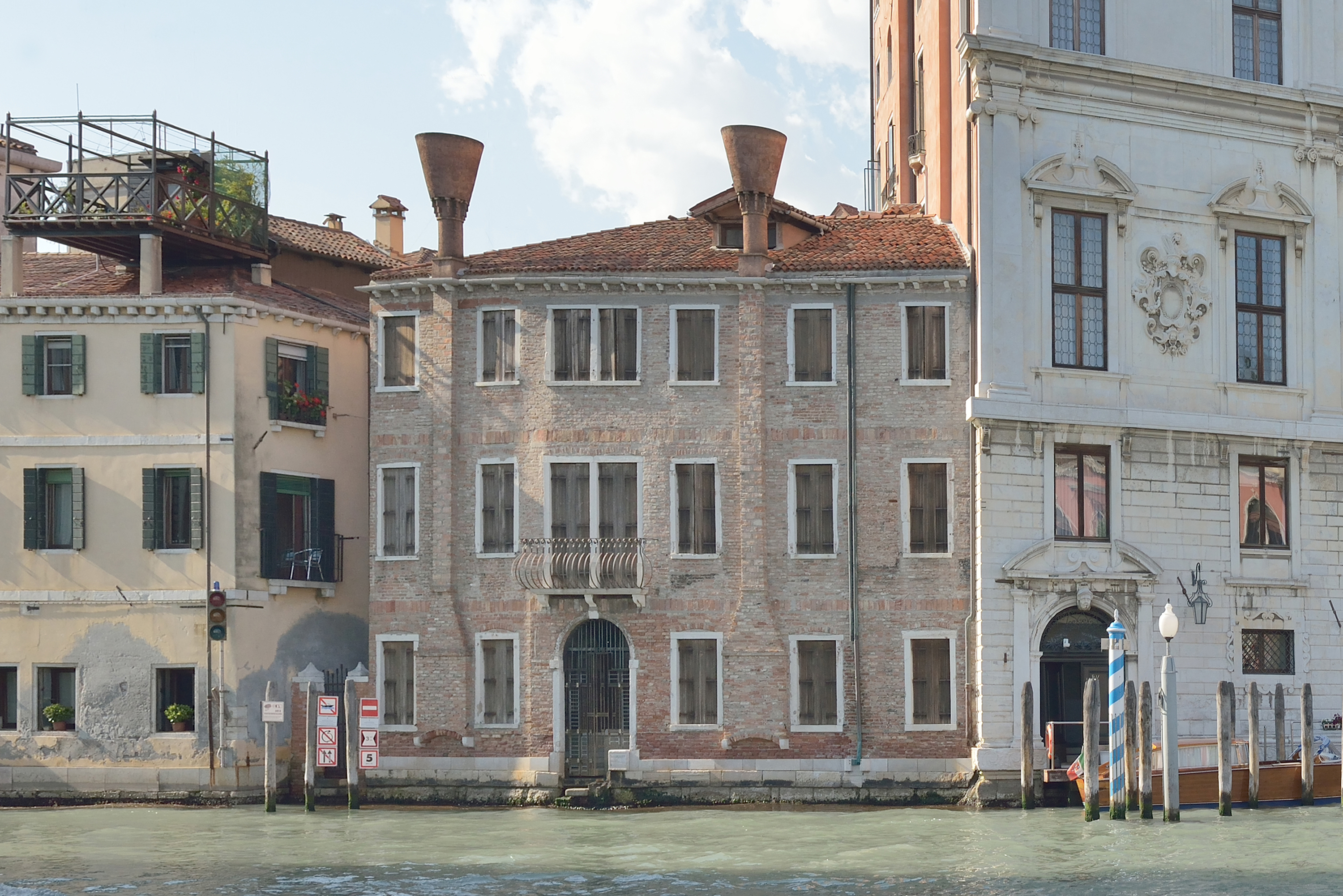 Ca' Masieri on the Canal Grande in Venice.